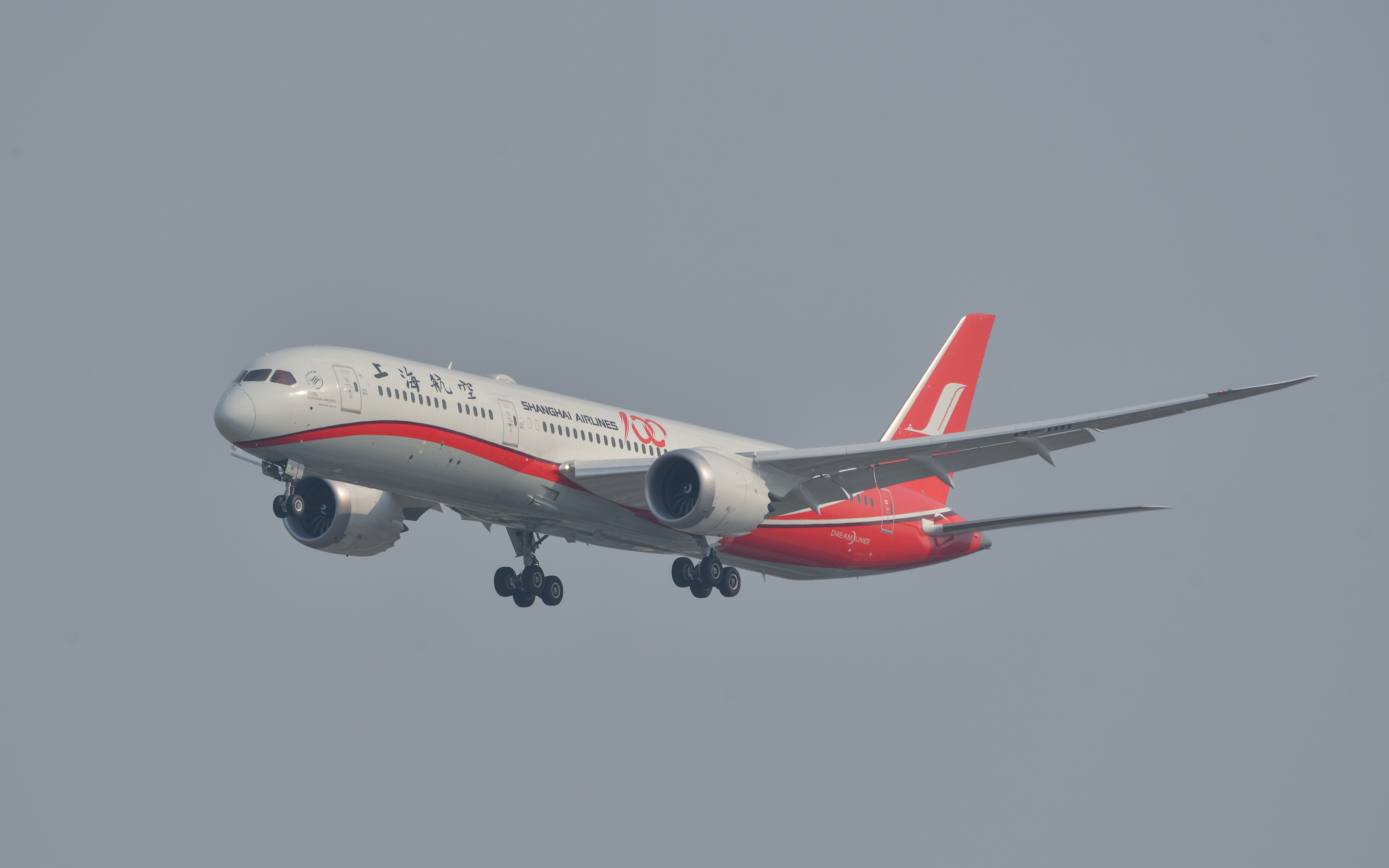 The 1st boeing 787- 8 for Shanghai Airlines. The 100th boeing jets for Shanghai Airlines.